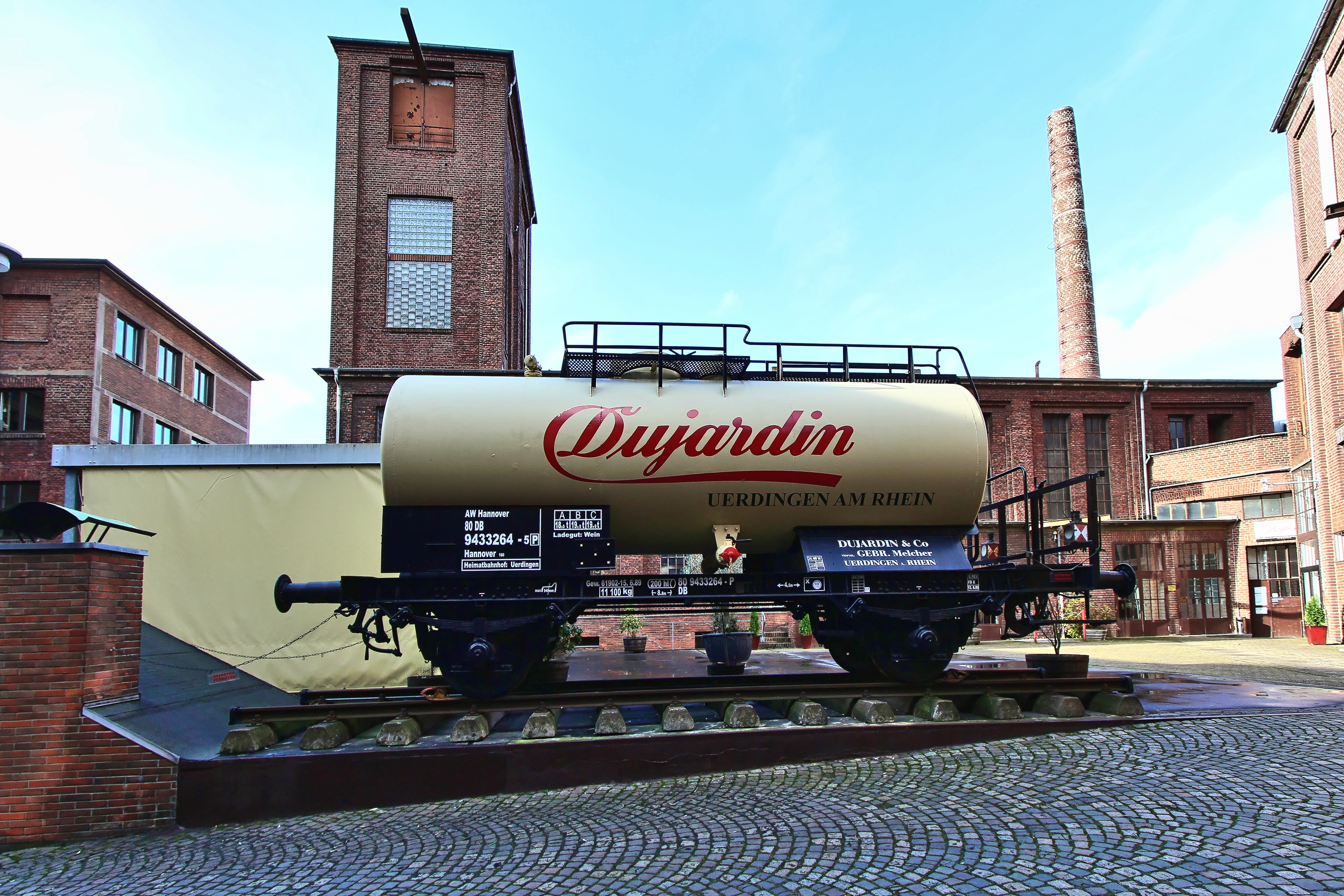 Krefeld (North Rhine-Westphalia, Germany) – Uerdingen – Dujardin Brandy Distillery